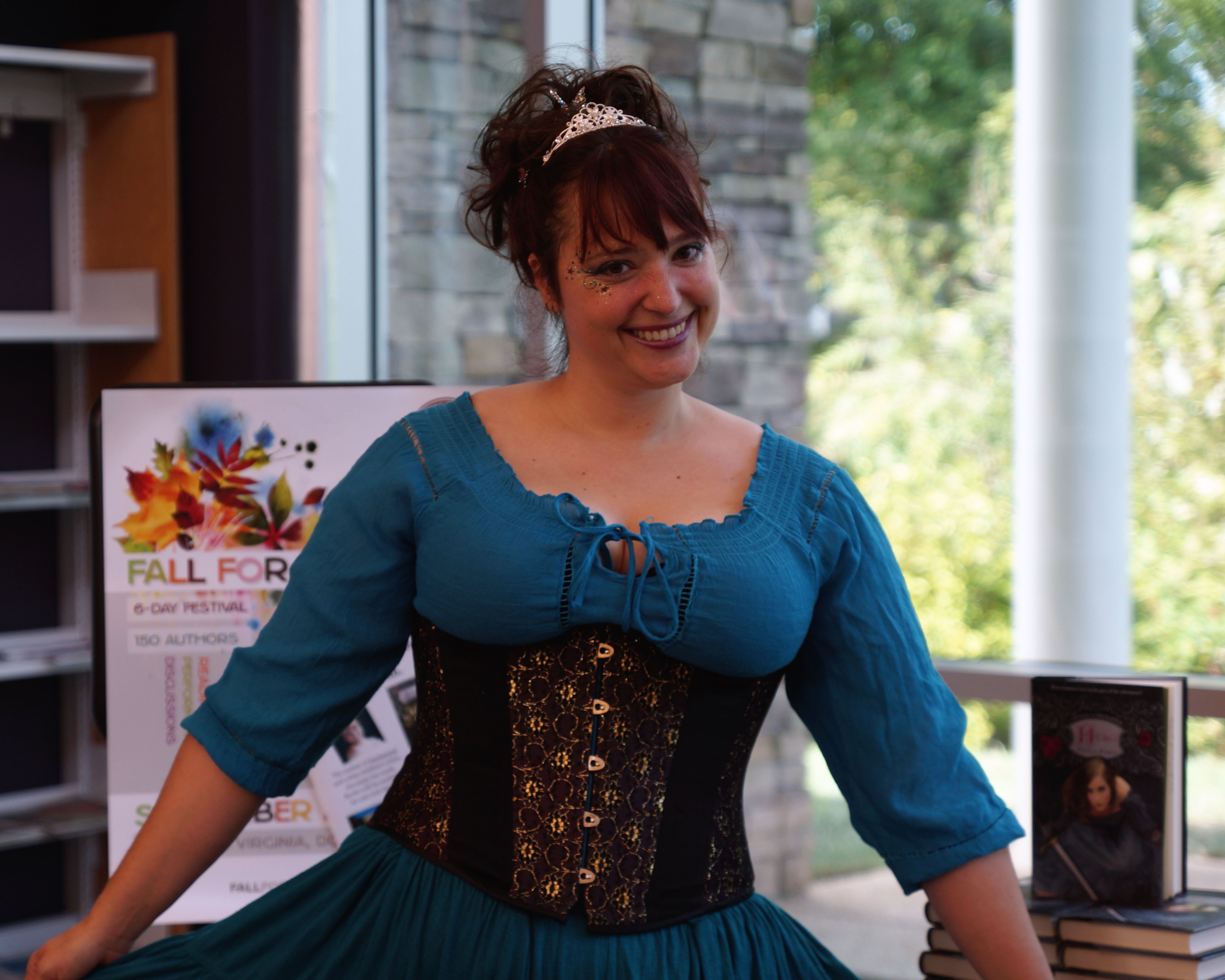 Alethea Kontis read from her first two Woodcutter novels, Enchanted and Hero, at Burke Centre Library, Burke, Virginia, on September 26, 2013, as part of the annual Fall for the Book festival.